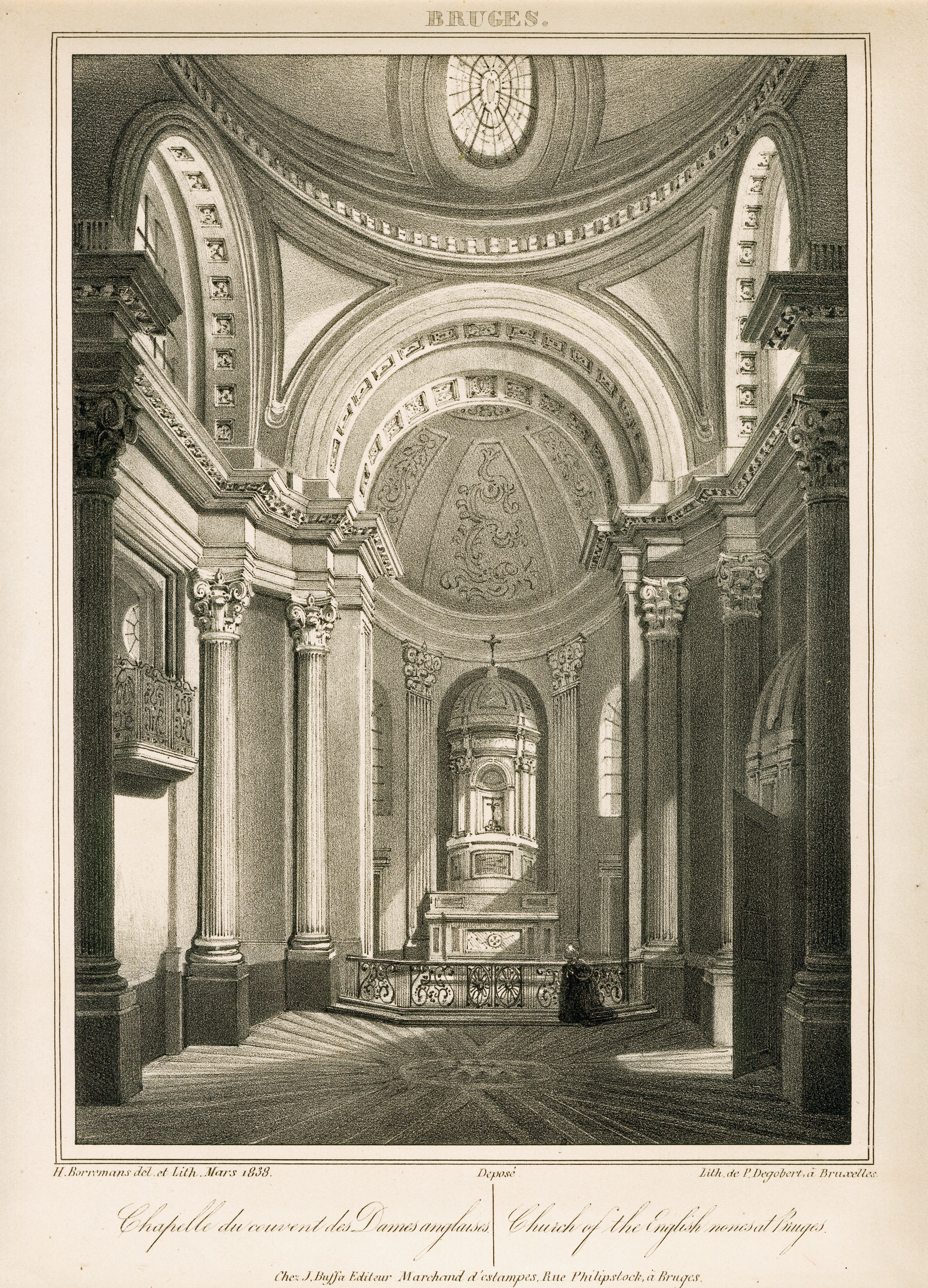 Interior view of the church of the English Convent in Bruges (Belgium). Lithograph from 1838 by Henri Borremans, published in Album Pittoresque de Bruges (Bruges, 1837-1840).